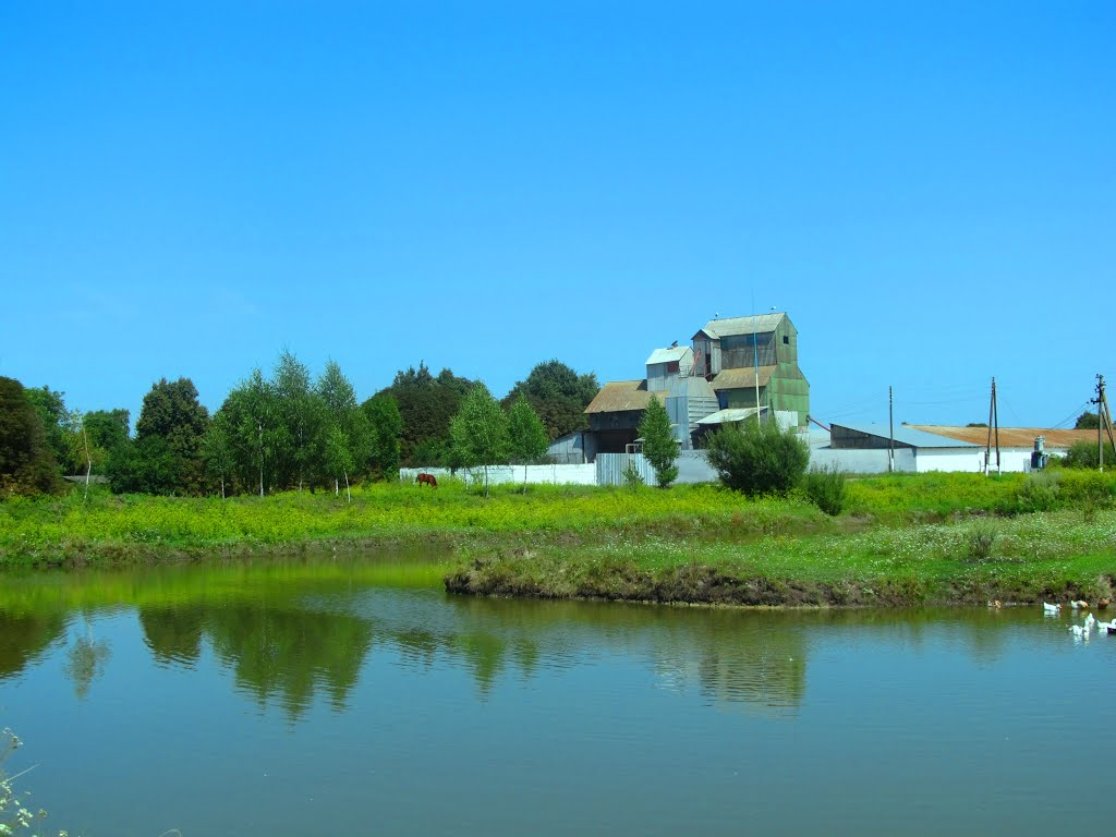 Farm in M.P.